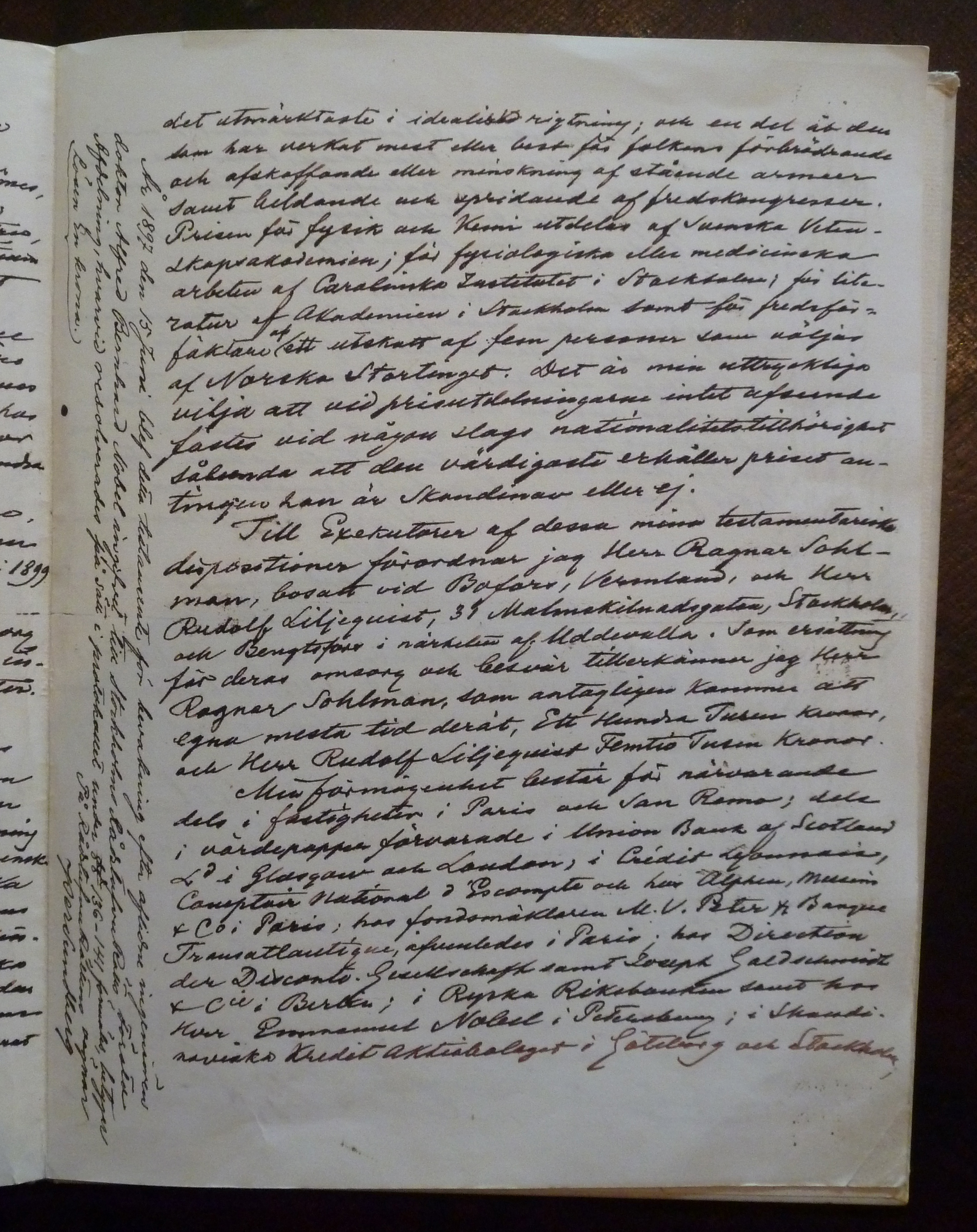 Alfred Nobel's will, 27 November 1895, page 3